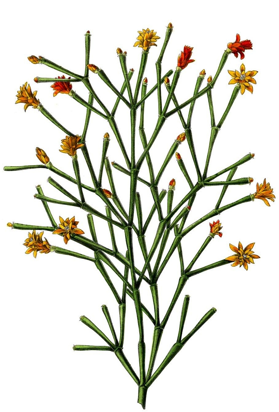 Hatiora saliscornioides